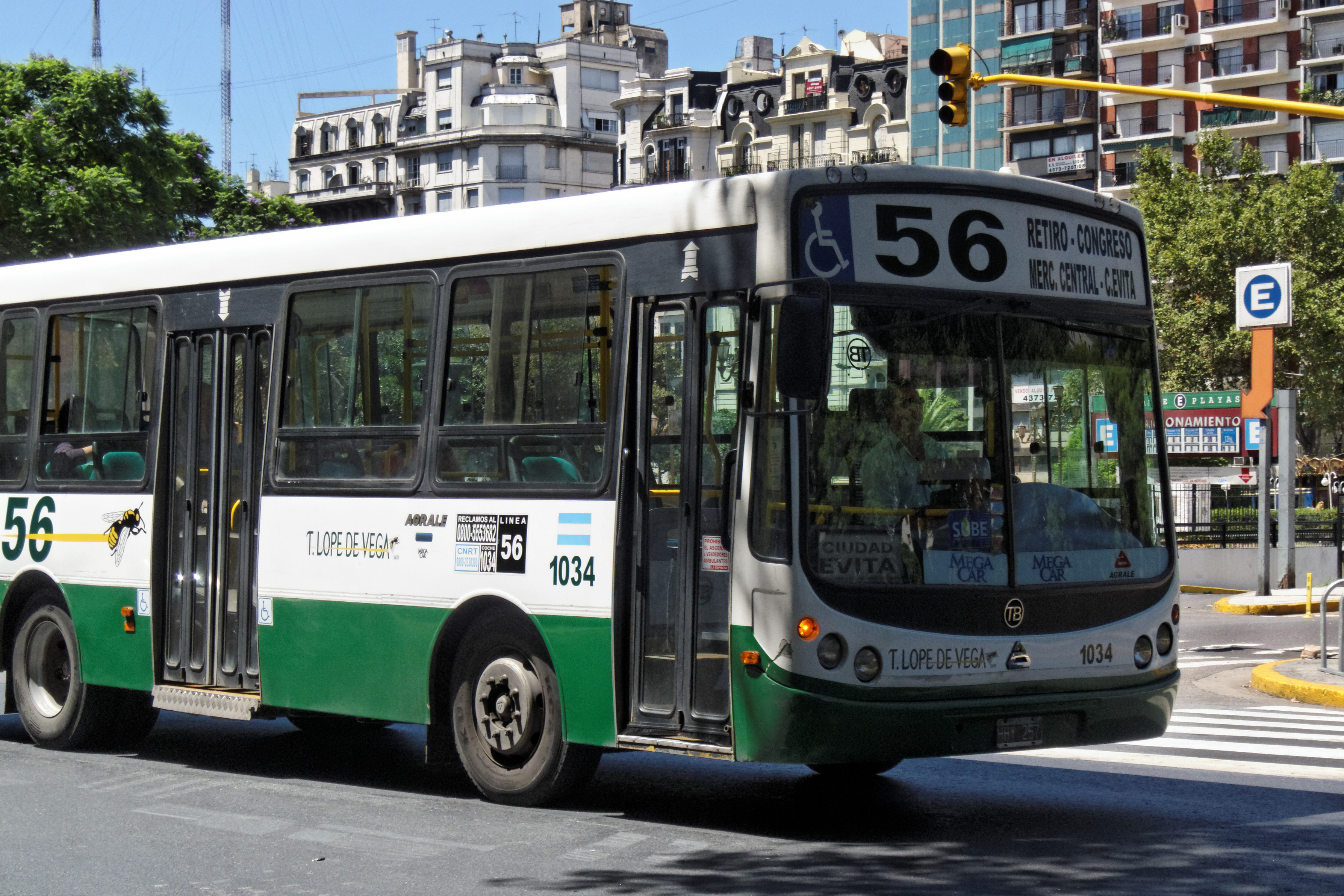 Todo Bus bus (reg. HHY 257, #1034) with Agrale chassis in Buenos Aires, Argentina. Colectivo, line 56, Transportes Lope de Vega S.A.C.I.F. (D.O.T.A.) operator.